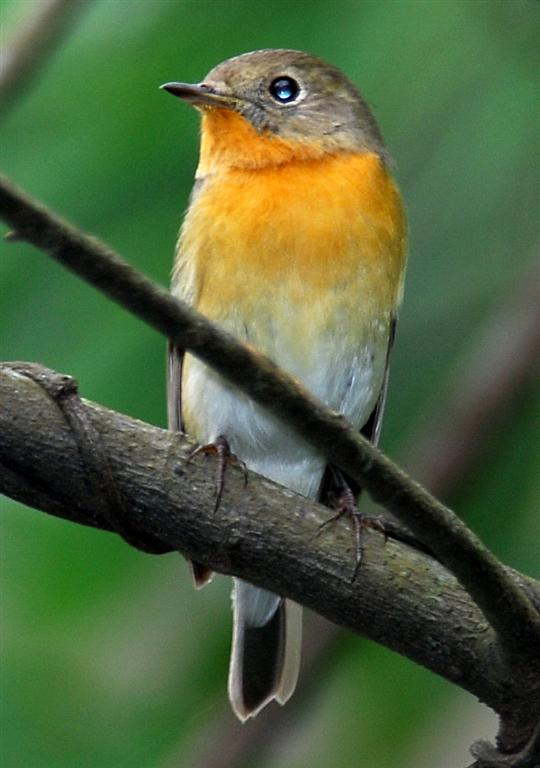 Mugimaki Flycatcher 1st Winter Male (Ficedula mugimaki)